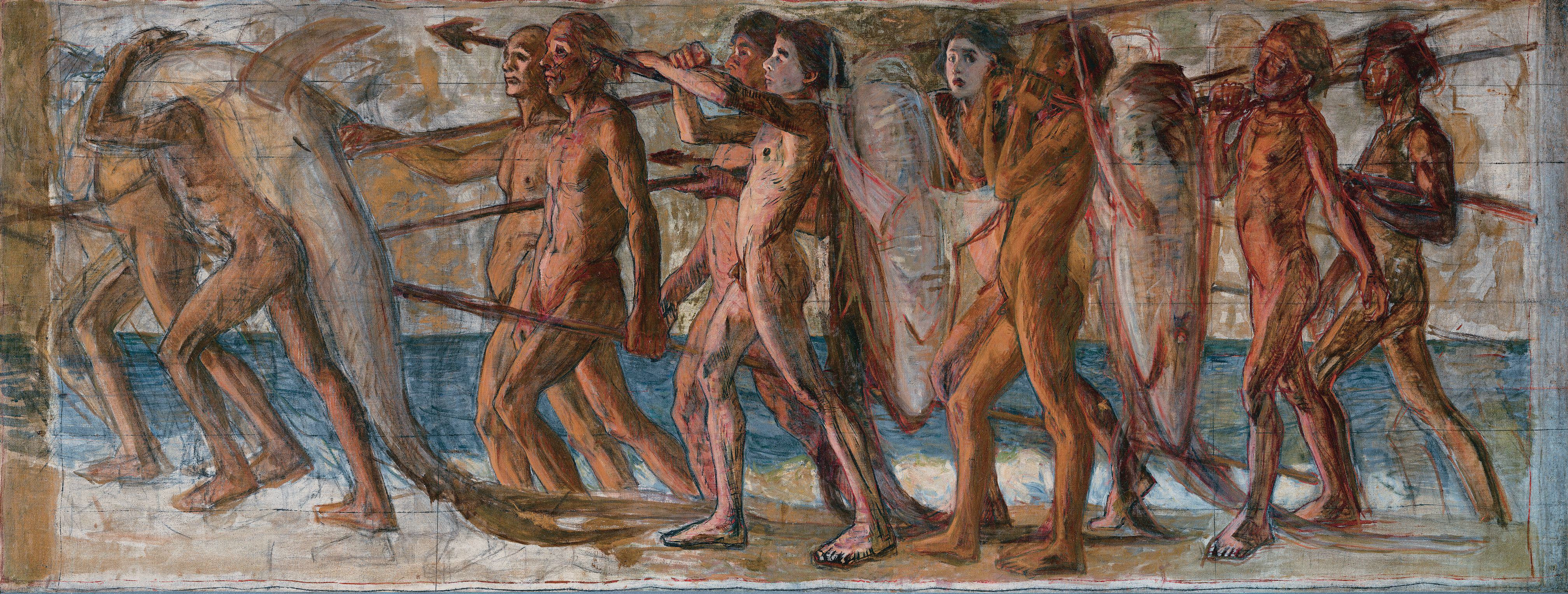 A Gift of the Sea by Aoki Shigeru, Ishibashi Museum of Art, Kurume, Fukuoka, Japan